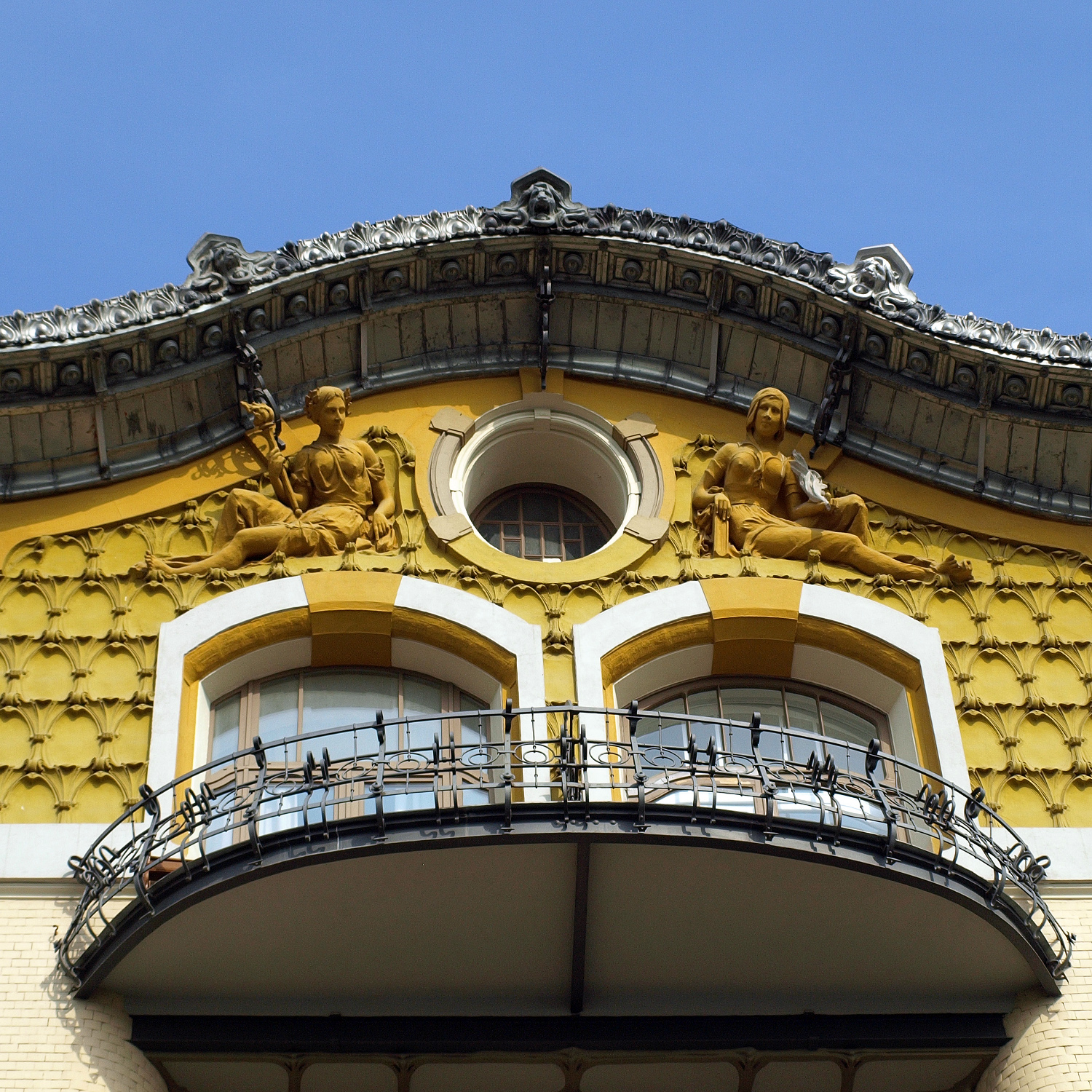 Prechistenka Street, Moscow. The Isakov House designed by Lev Kekushev, completed in 1906.